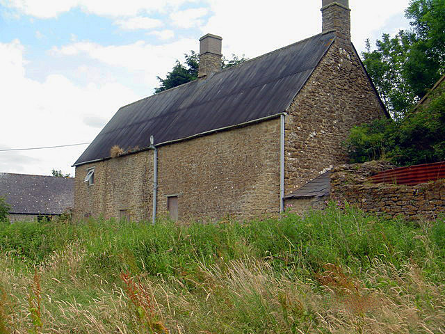 Ranscombe Cottage, near the Hassage House, Faulkland, Radstock, BA3 5XG, Somerset, United Kingdom. See Camera location